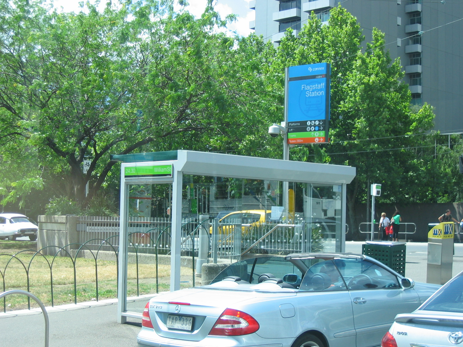 Flagstaff station, Melbourne CBD, Victoria